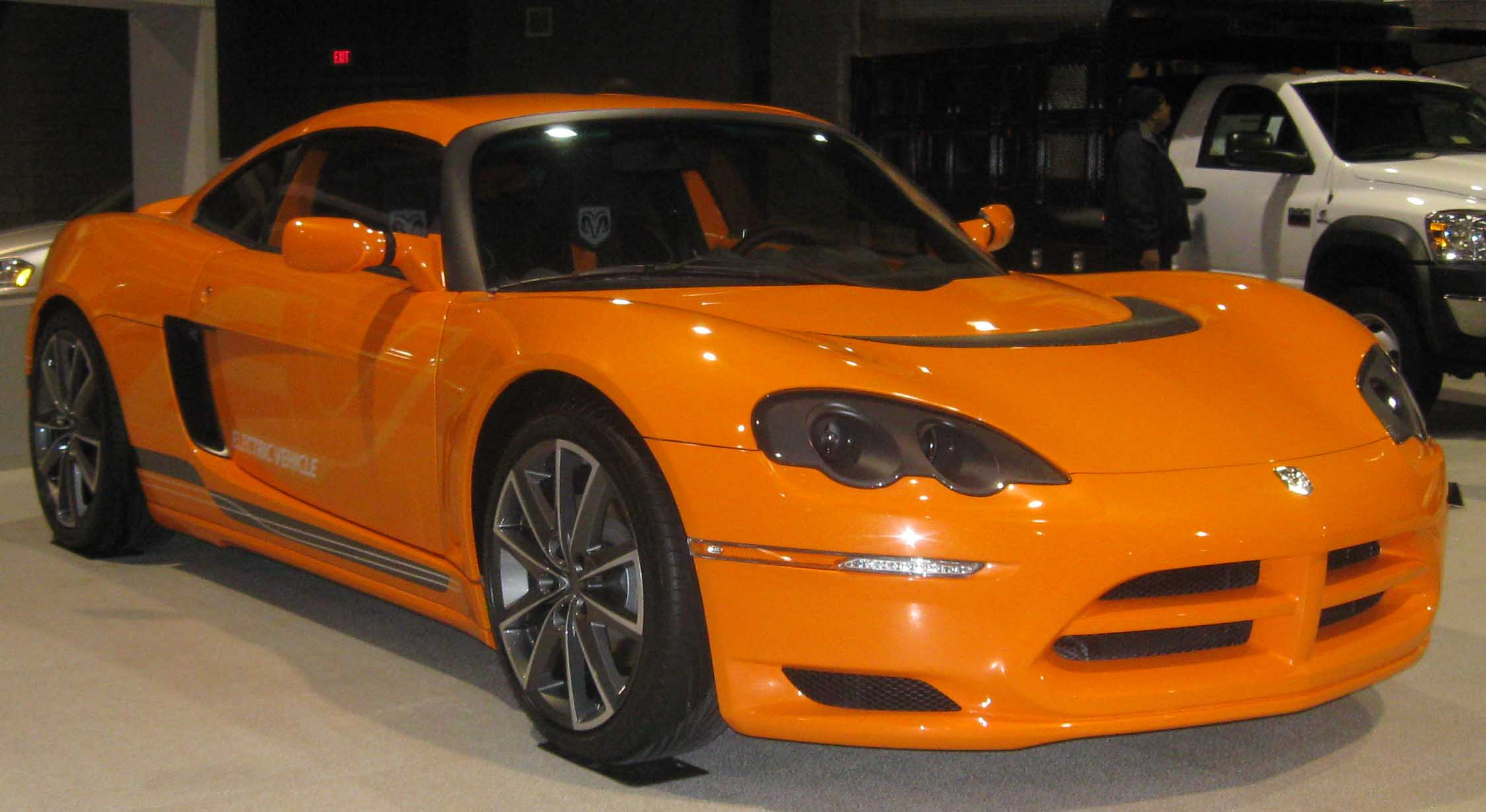 Dodge Circuit EV photographed at the 2009 Washington DC Auto Show.